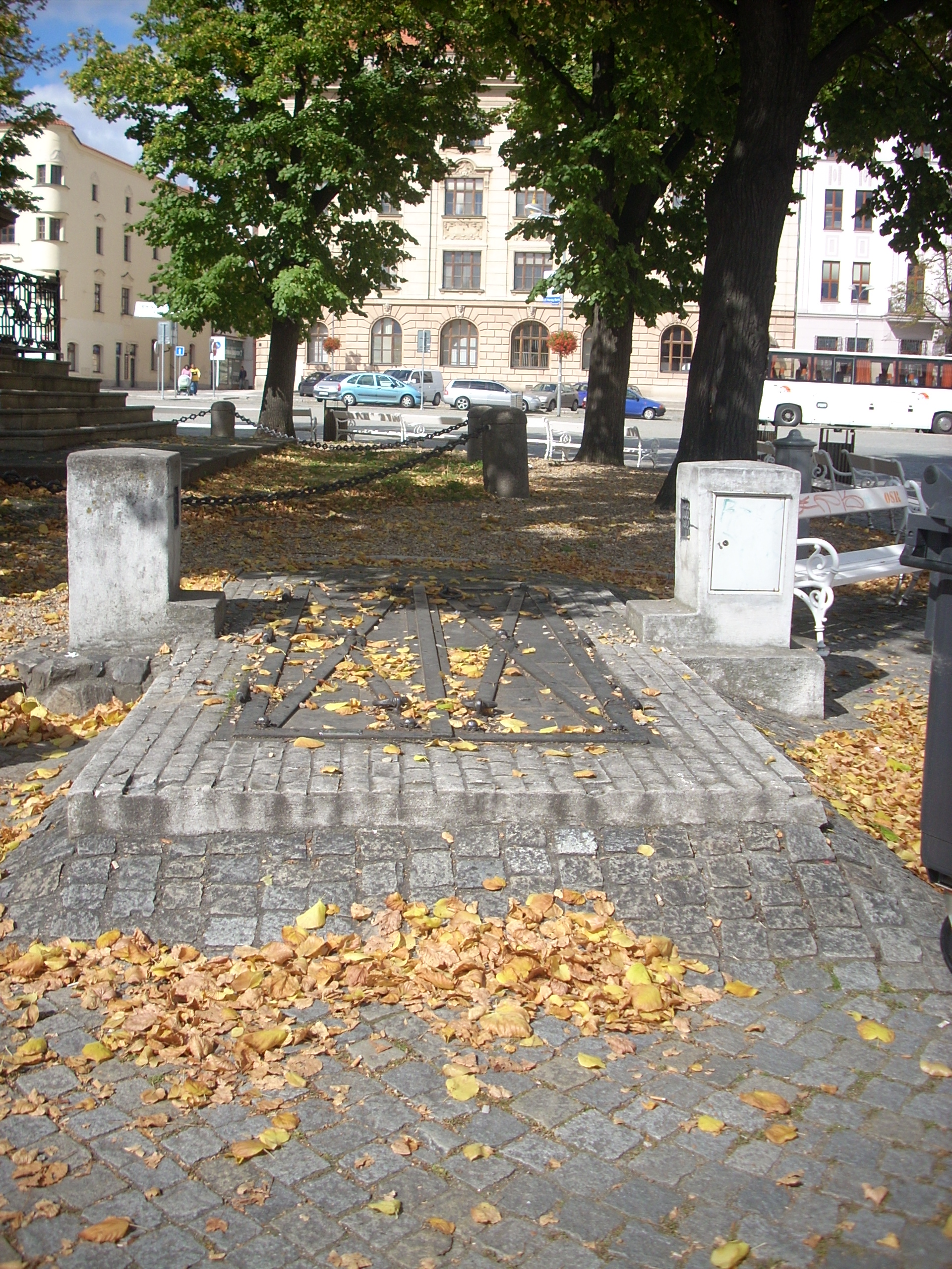 Undergroud entrance in Masarykovo náměstí (Jihlava)